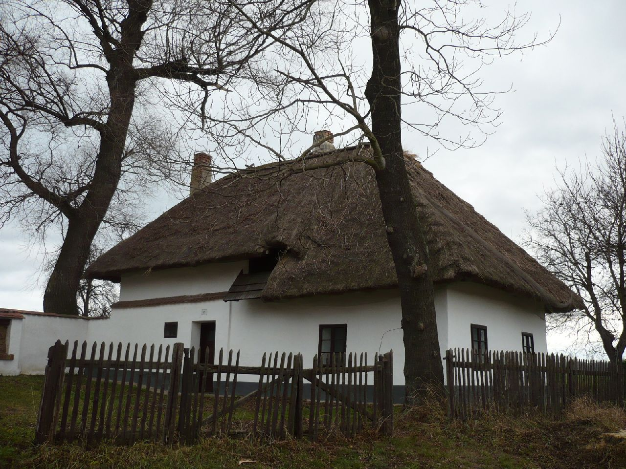 Folk Museum Rymice - Small homestead Symerskych